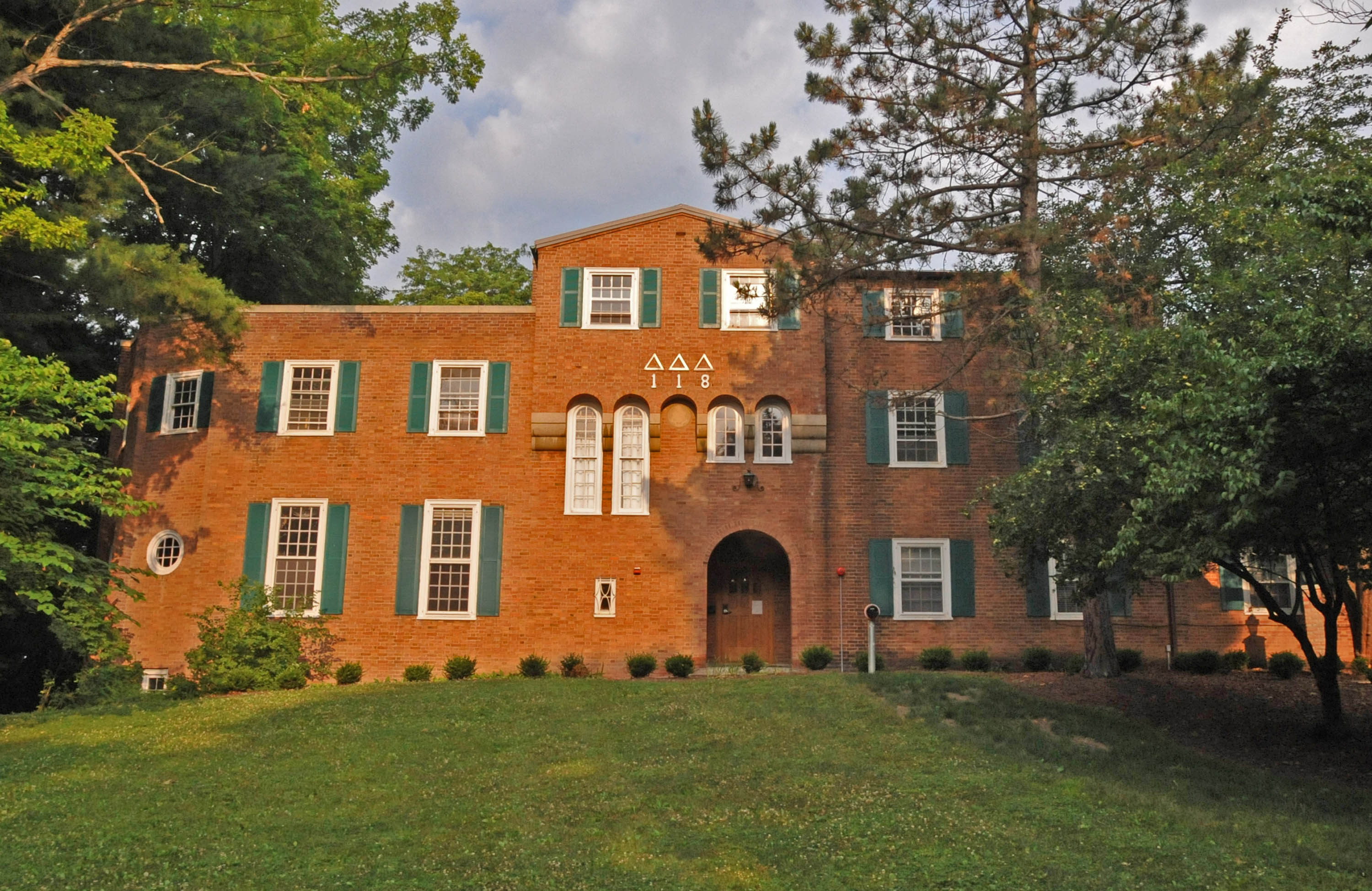 THIS AREA DEVELOPED CIRCA 1898 DUE TO EXPANSION OF CORNELL UNIVERSITY. THE PREVIOUSLY BARREN HILLSIDE WAS DEVELOPED BECAUSE OF 2 BRIDGES SPANNING FALL CREEK AND THE EXTENSION OF TROLLEY LINES. MANY STRUCTURES FEATURE TUDOR REVIVAL STYLE AND ARE LANDMARK HOME OR FRATERNITY HOUSES. THIS FRATERNITY HOUSE ISLOCATED AT 118 TRIPHAMMER ROAD